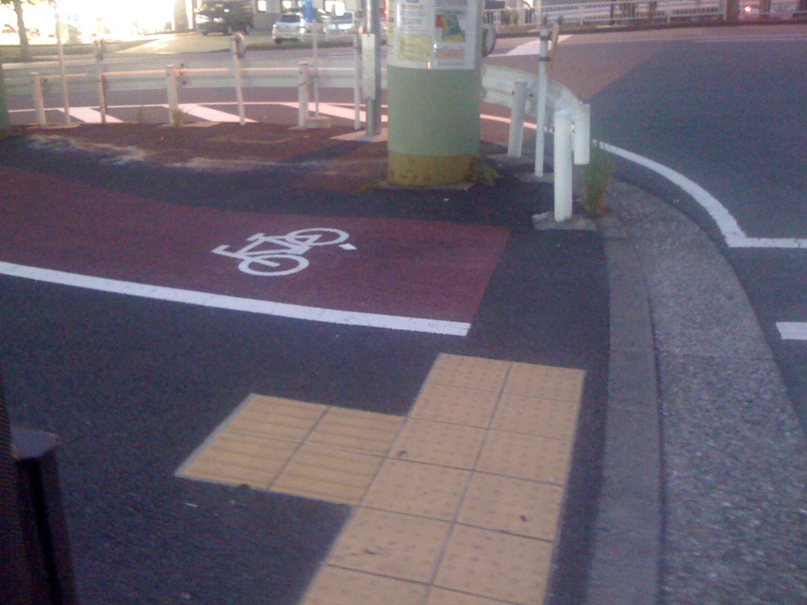 Bicycle lane on a pedestrians' path in Tsurumi, Yokohama, Japan